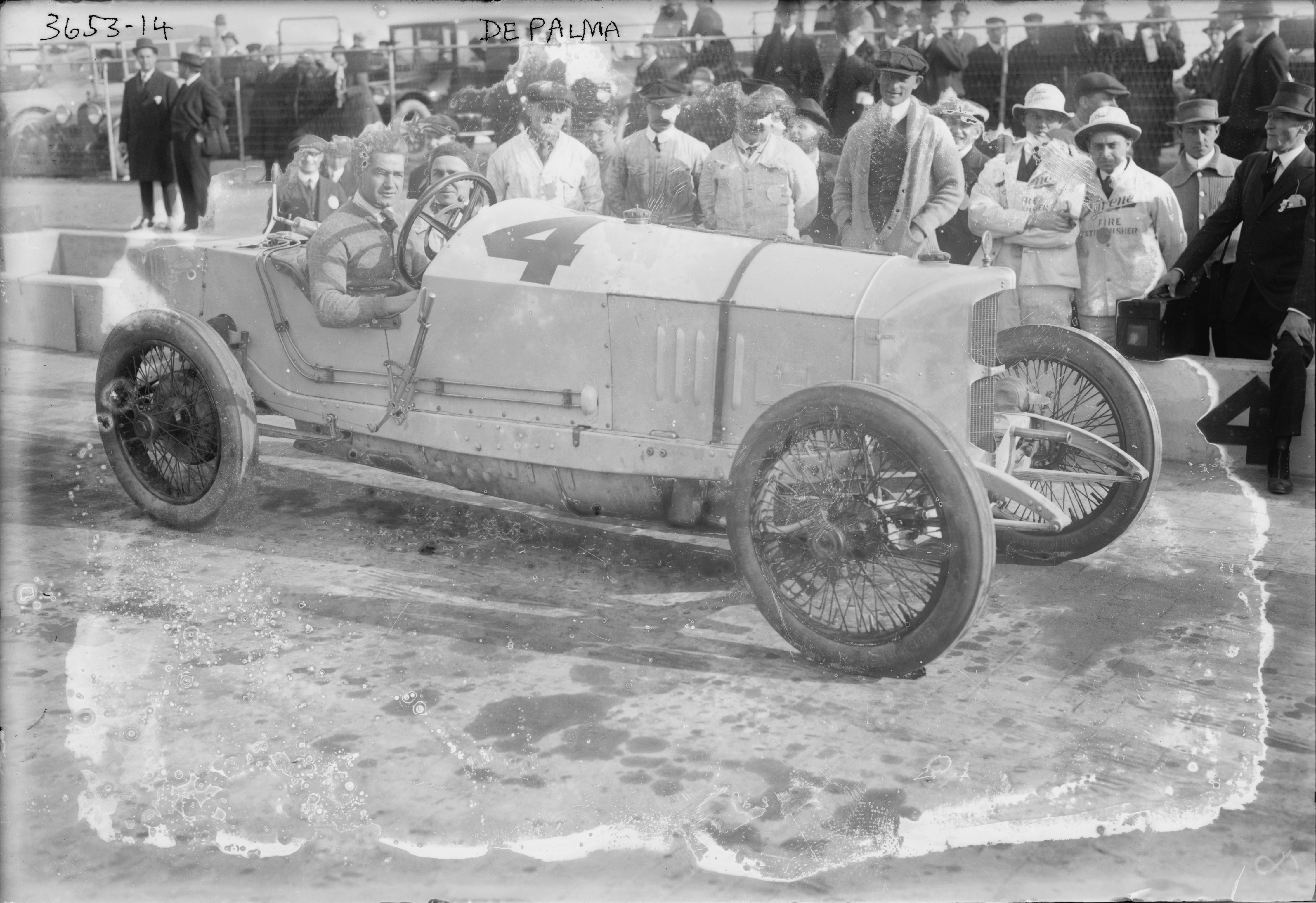 Ralph DePalma (1882-1956) won the 1915 Indianapolis 500